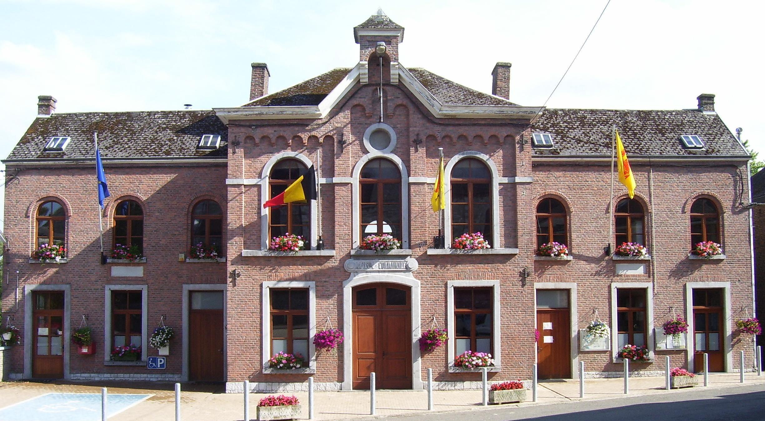 Maison Communale (municipality) of Assesse, Belgium